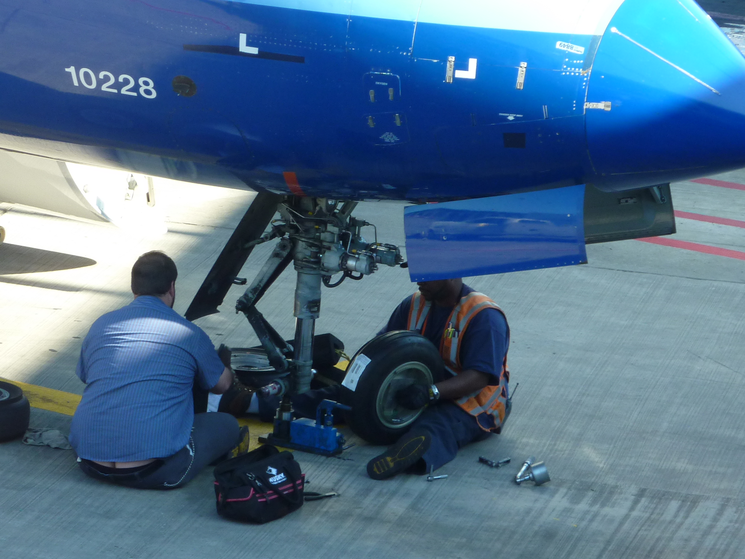 A United Express aircraft (tail no. N763SK) gets a new set of front wheels while passengers are waiting to board at Chicago O'Hare International Airport